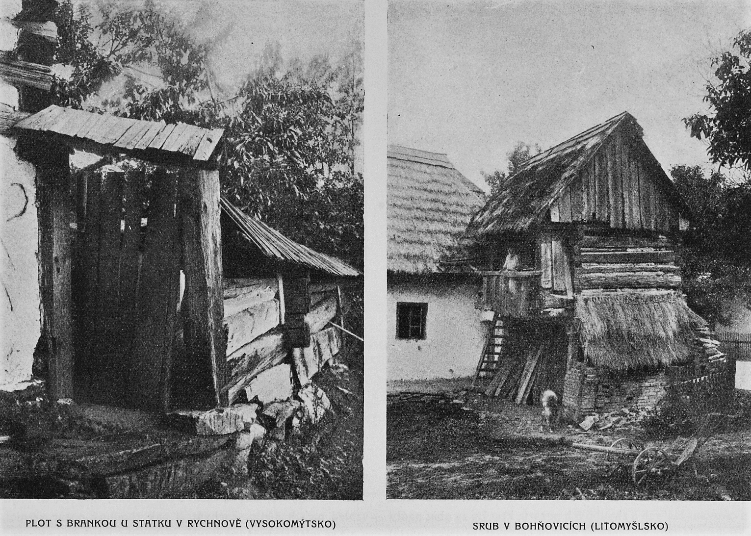 Bohumil Vavroušek: Ukázka z díla